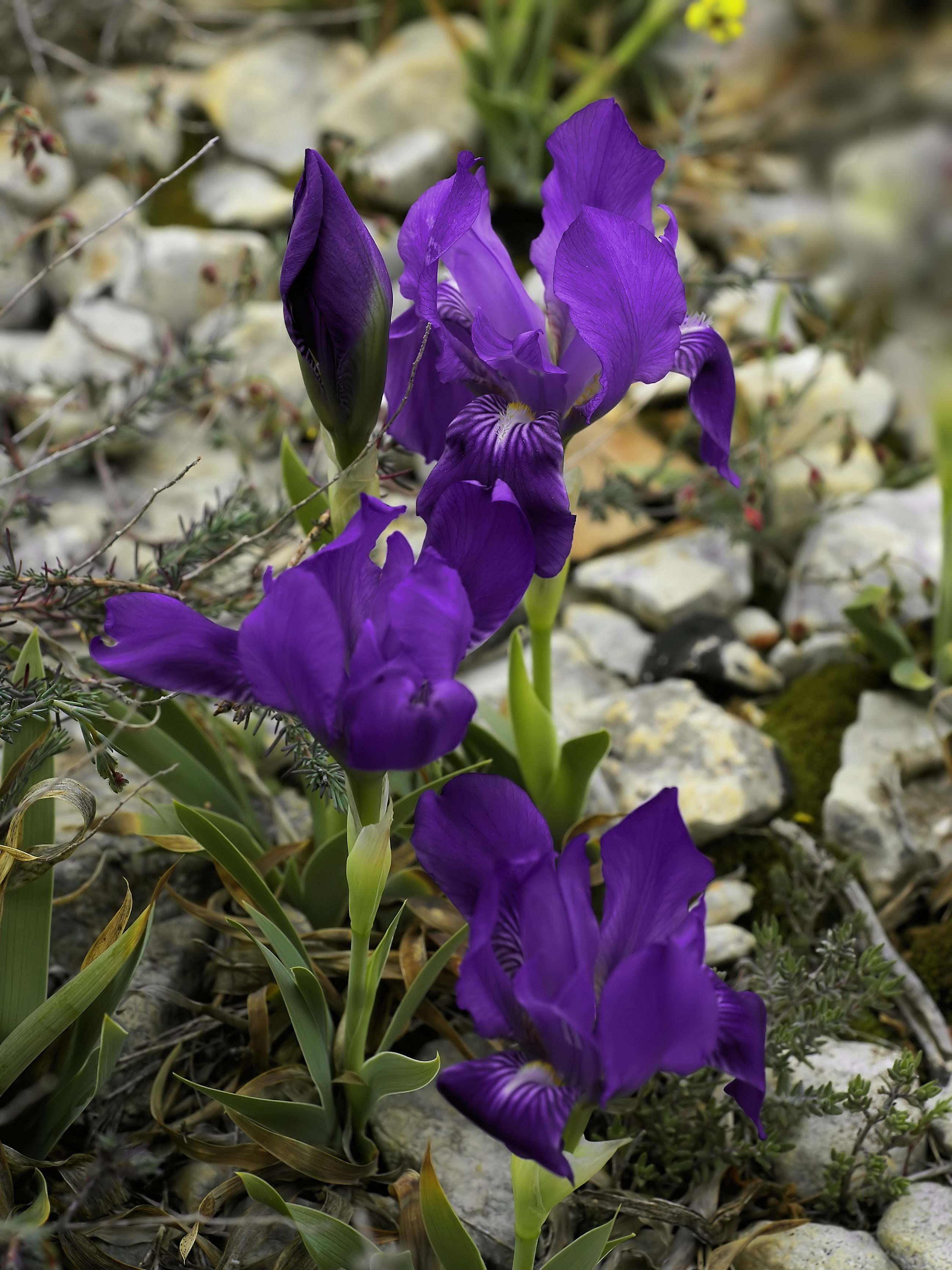 near el Perelló (Catalonia), Spain